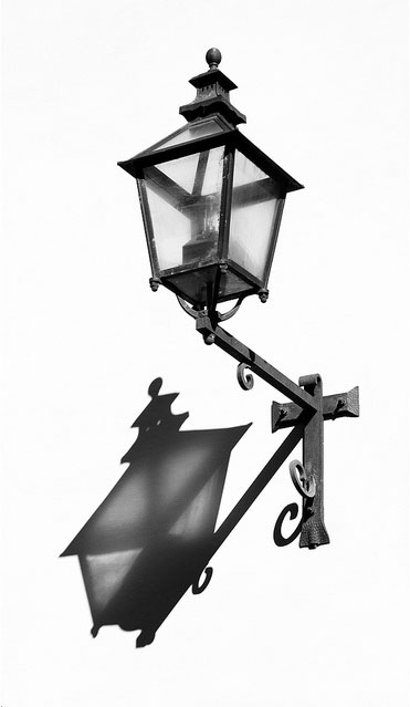 Shadow cast by an old lamp.